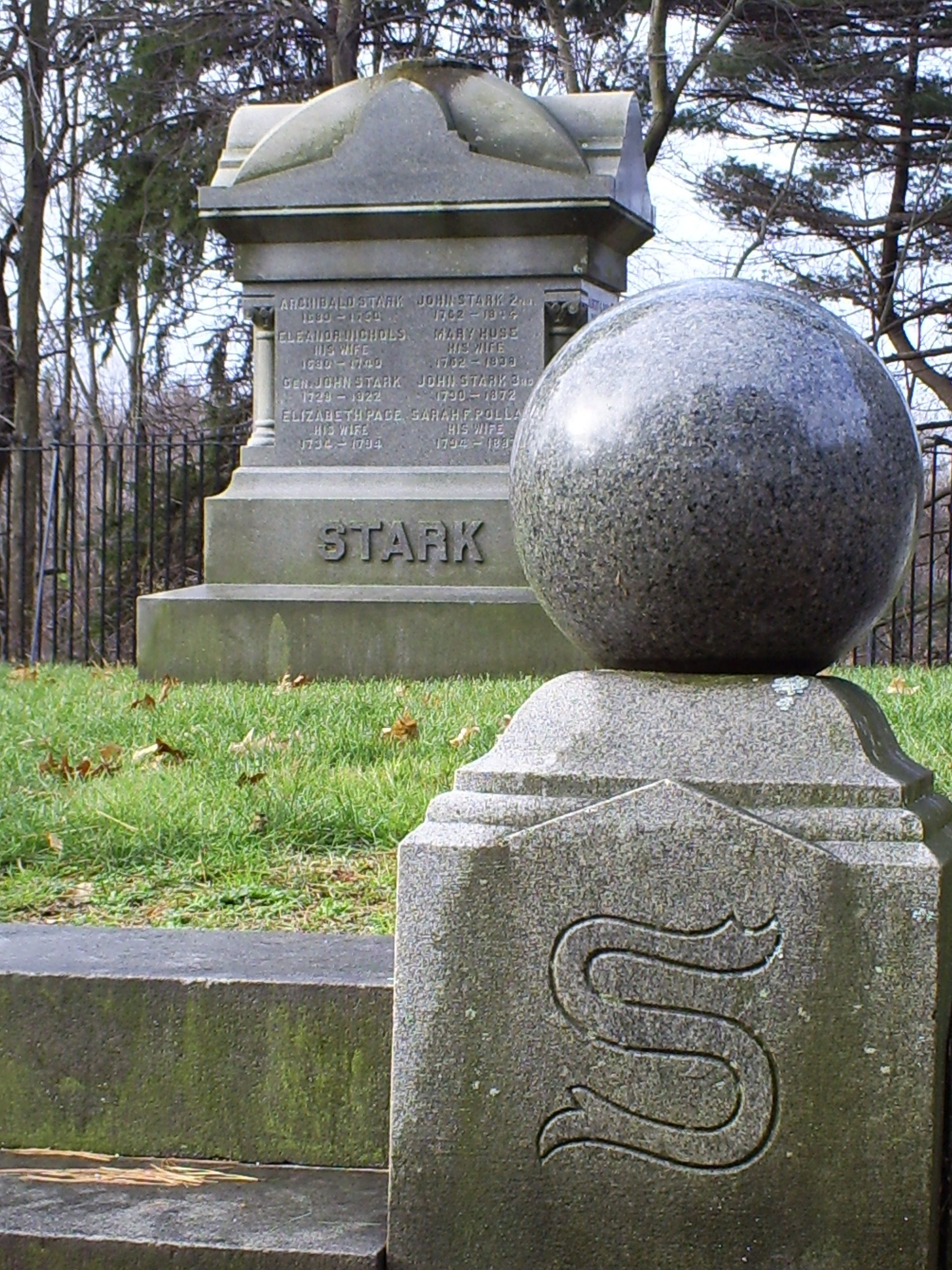 Photo by Craig Michaud.This is at Stark Park in Manchester, NH